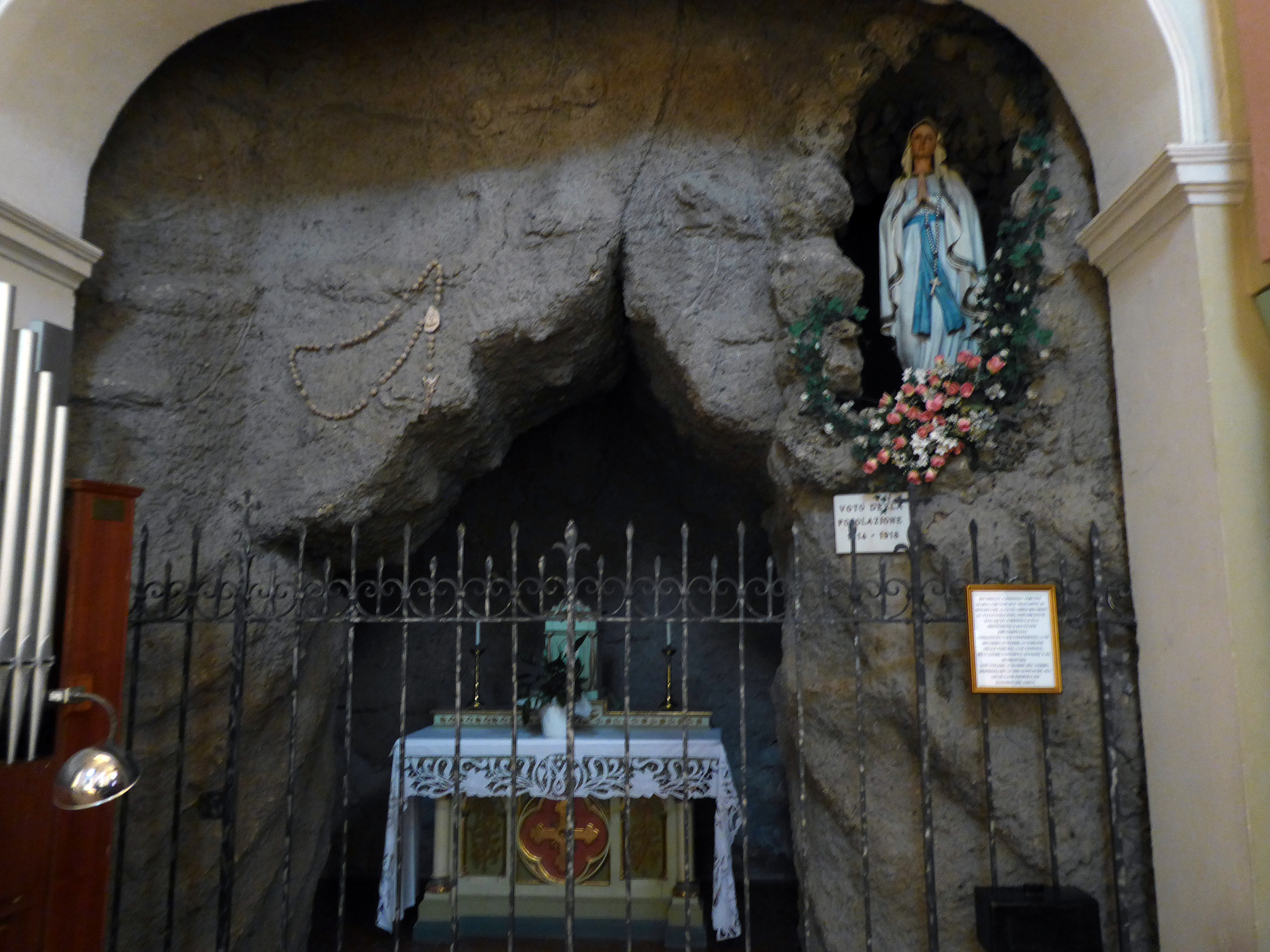 Lenzima (Isera, Trentino, Italy), Saint Martin church - Lourdes Grotto